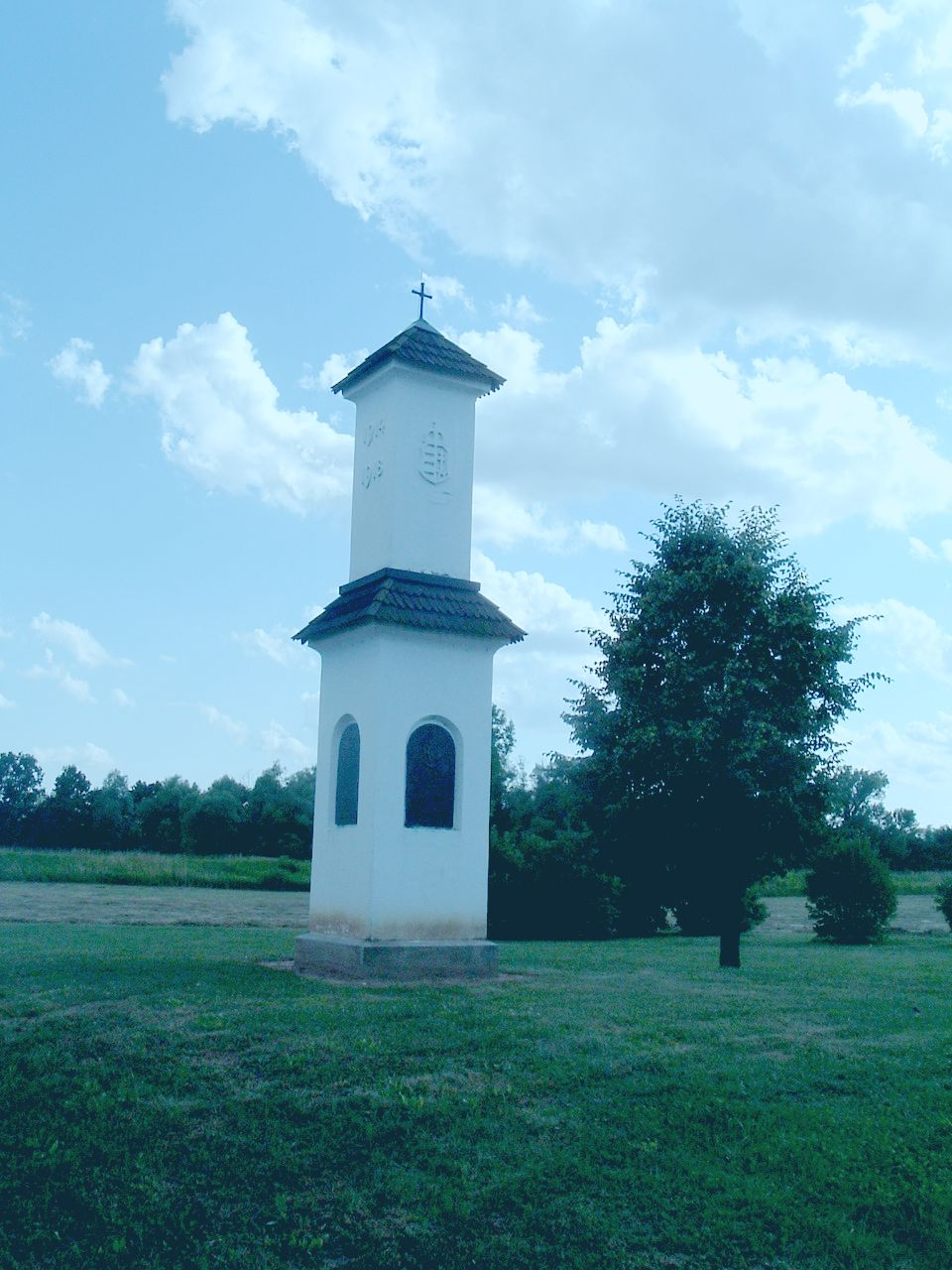 The Heros' Monument in Sorkifalud, Hungary